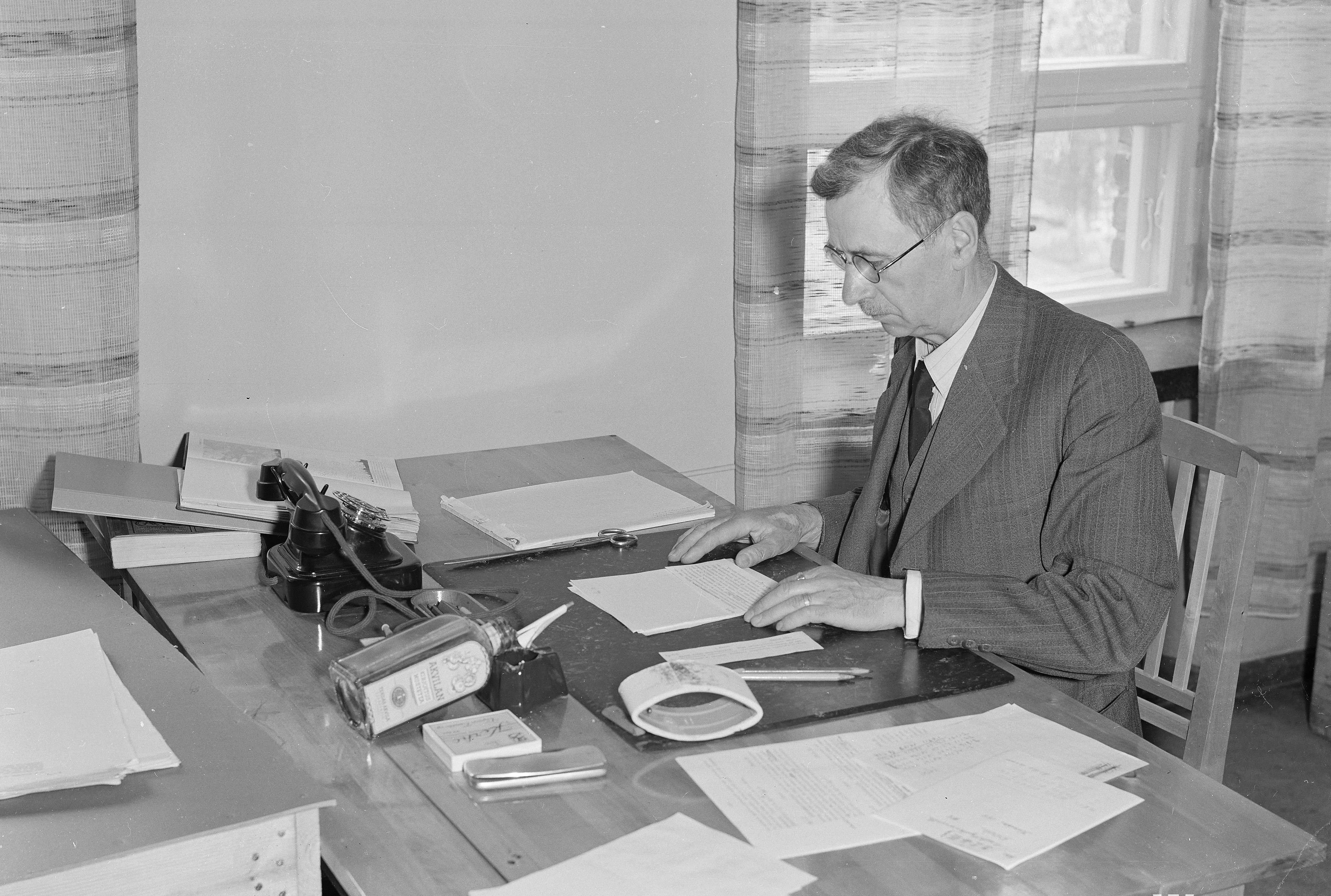 Photograph of the Finnish meteorologist and professor Jaakko Keränen (1883–1979).